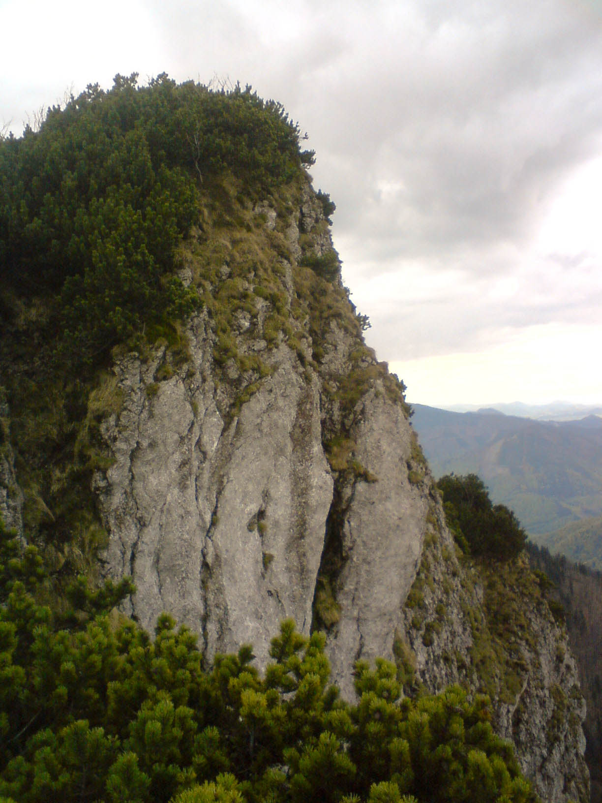 Mountain in the Lesser Fatra